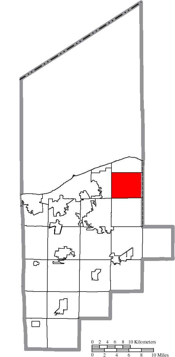 Map of the municipal and township boundaries of Lorain County, Ohio, United States, as of the 2000 census, with the location of the city of Avon highlighted. Township borders are shown only in unincorporated areas in order to differentiate incorporated and unincorporated areas more clearly.